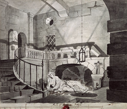 This drawing has been linked to a lost painting of ‘Guy de Lusignan in Prison’.